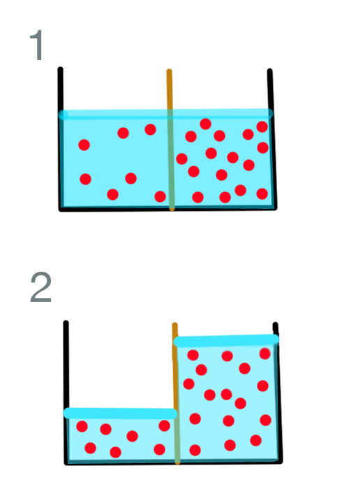 Osmosis